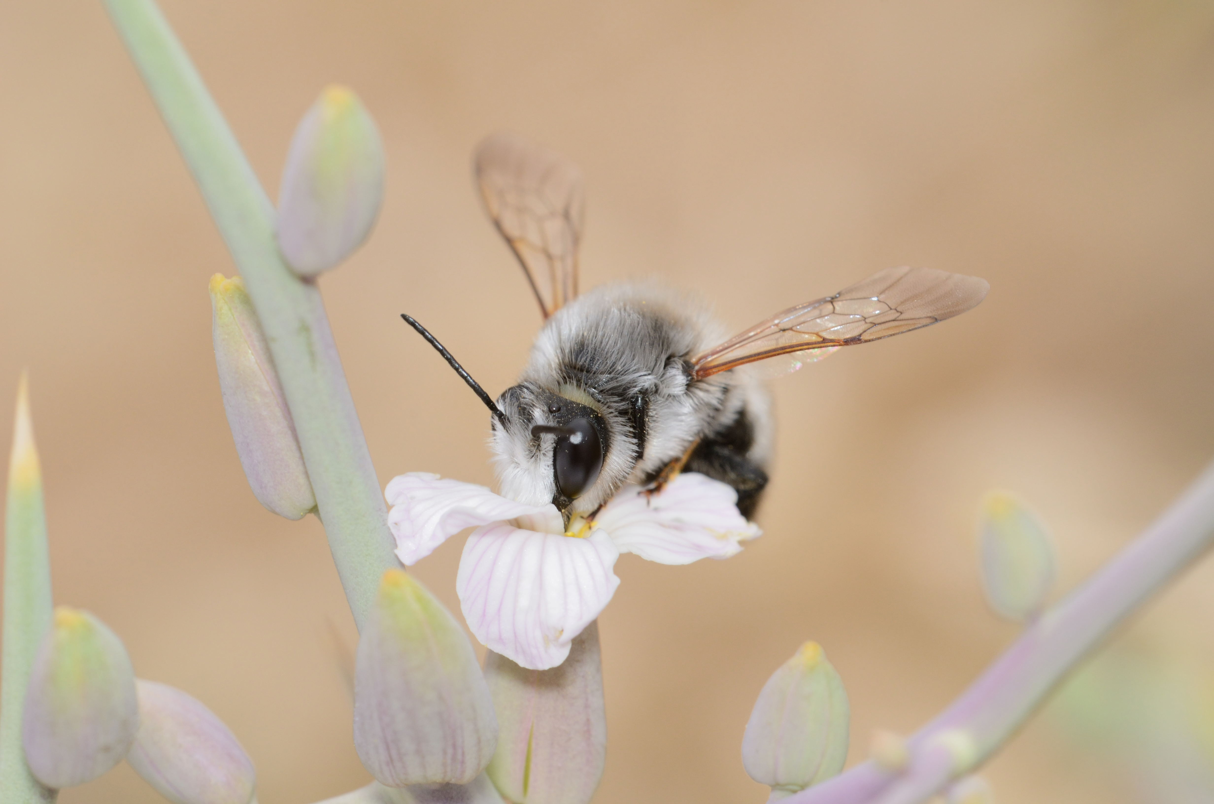 Megachile (Chalicodoma) nigrita Radoszkowski 1876, male foraging on Zilla spinosa, Makhtesh Ramon, Israel, February 21, 2014.